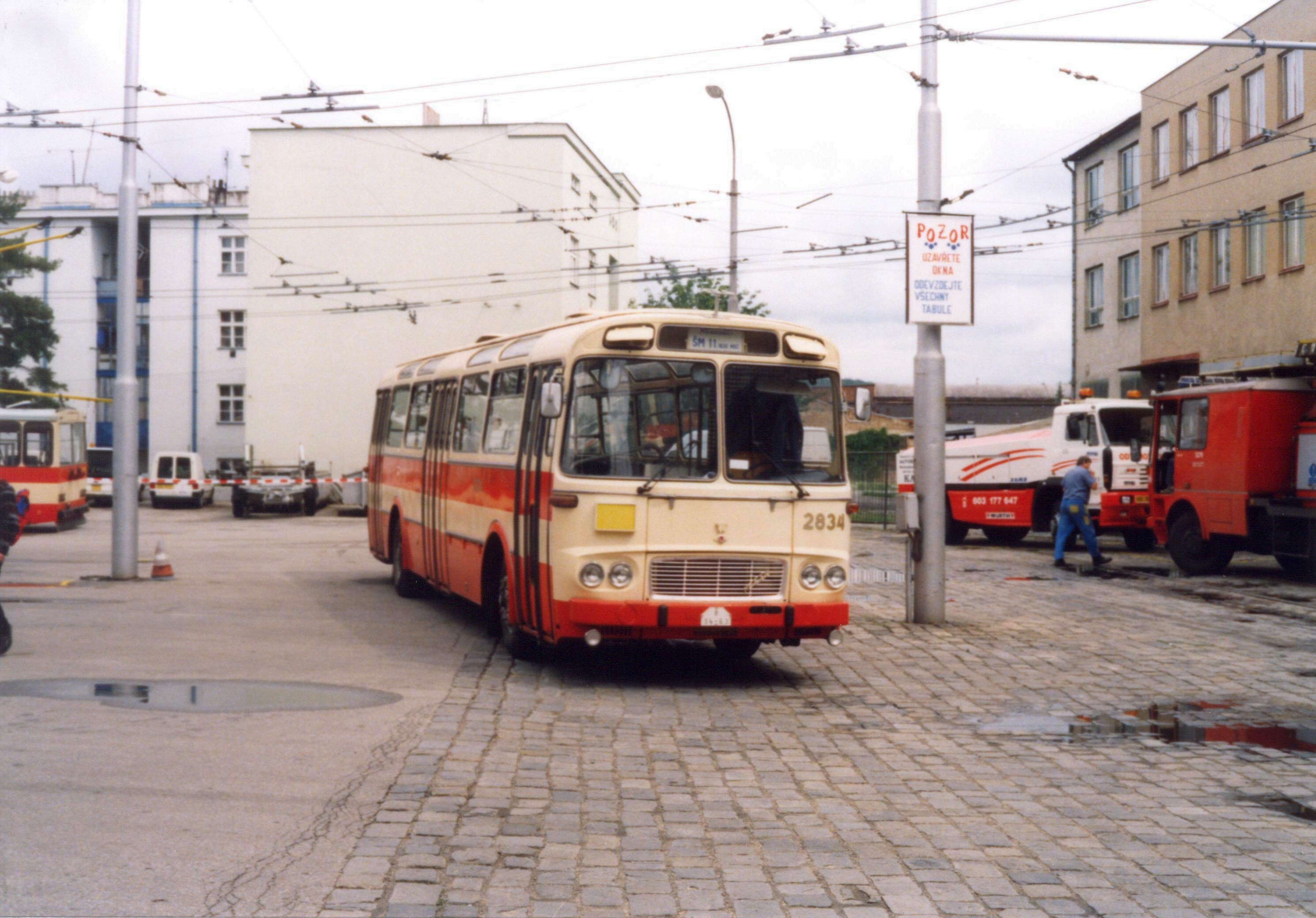 Karosa ŠM 11.1630 MOC historical bus No. 2834 of Technické muzeum v Brně, Husovice Depot, Brno, Czech Republic - Google Maps - Google Earth